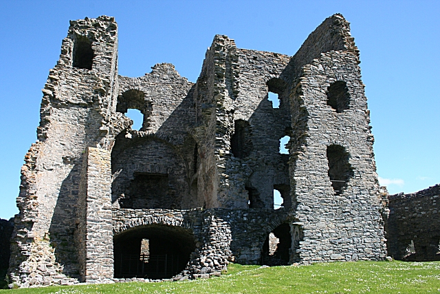 Auchindoun Castle Keep The keep is an L-plan tower inside a rectangular curtain wall. The great hall was left of centre, above the vaulted basement.